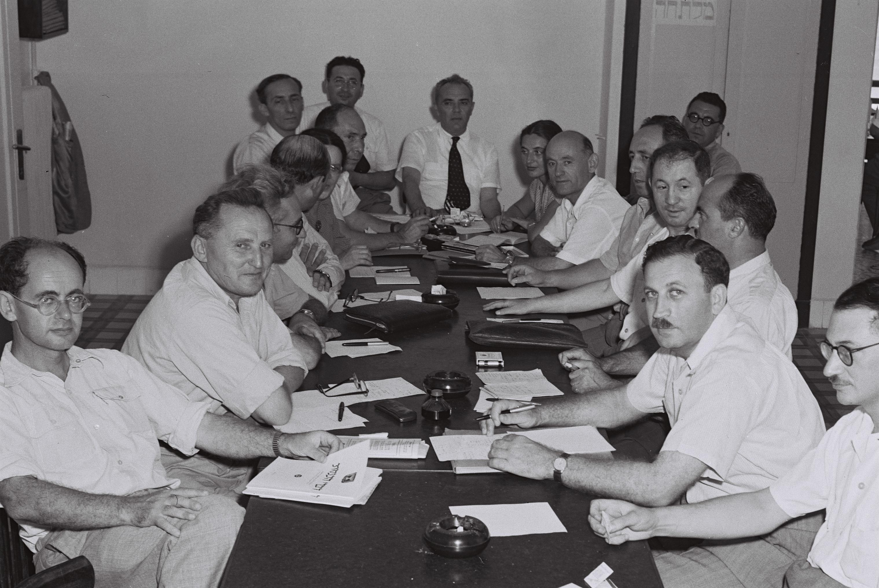 Knesset Foreign Affairs & Security Committee. FOREIGN AFFAIRS AND SECURITY IN KNESSET COMMITTEE IN SESSION. FROM L. BEN ASHER & DUVDEVANI, FROM RIGHT S. KATZ & MERIDOR.